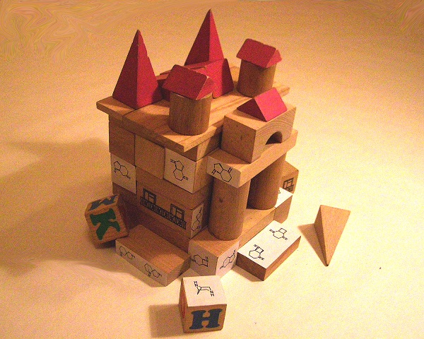 A building block house